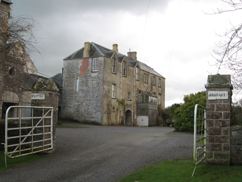 Gate entrance to the private grounds of Grade II* listed Ewenny Priory house with the west wing of the house in view. The main Georgian mansion lies behind it.